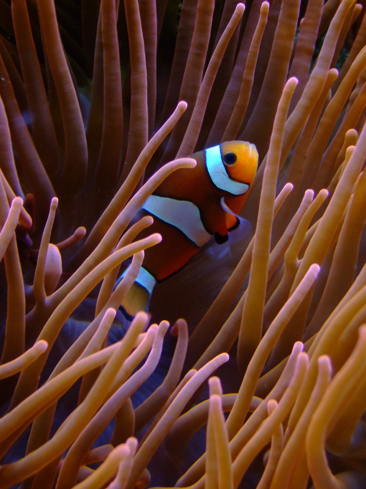 Amphiprion Ocellaris, Aquarium im Kölner Zoo